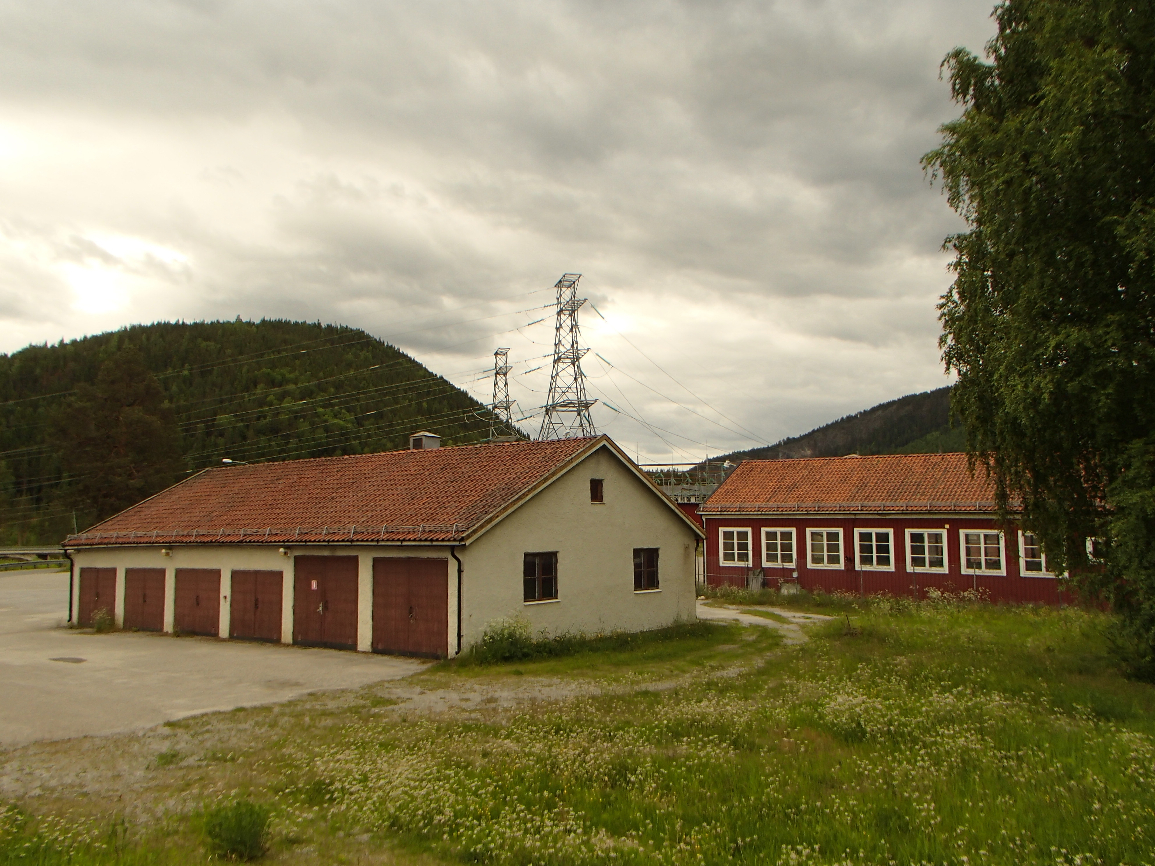 Buildings at the working life museum "Krångede kraftverksmuseum" at Krångede, Ragunda Municipality